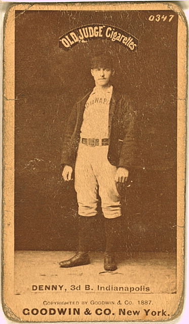 Jerry Denny on an 1887-90 Goodwin & Company baseball card (Old Judge (N172)).